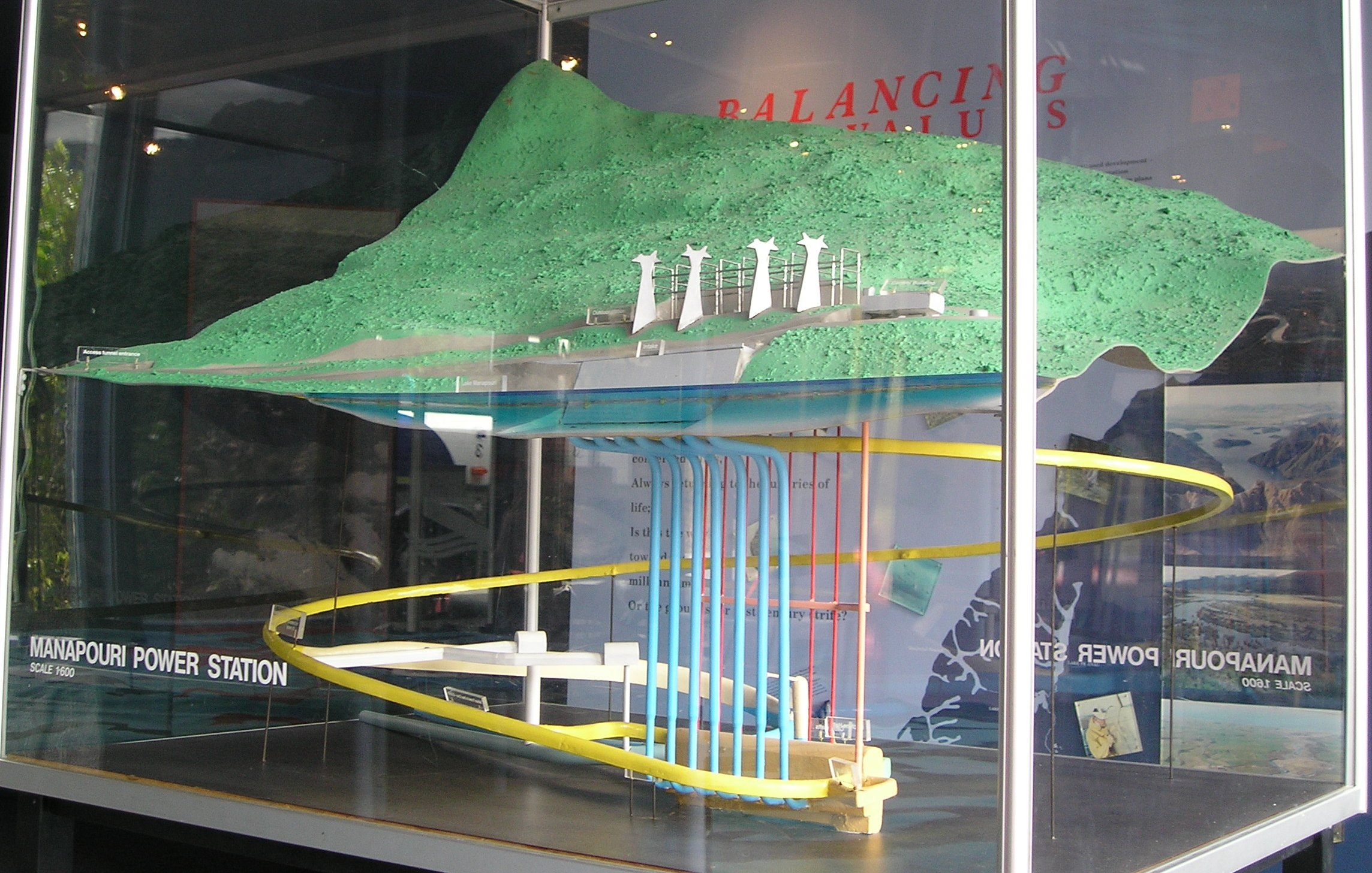 This is a model of the Manapouri Power Station, situated in he visitors reception area of the power station at Manapouri, N.Z.